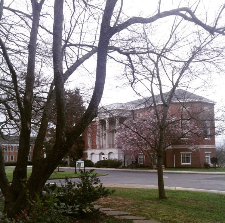 Cherry blossoms bloom in front of Candler Hall, as seen from the side patio of Tate Hall